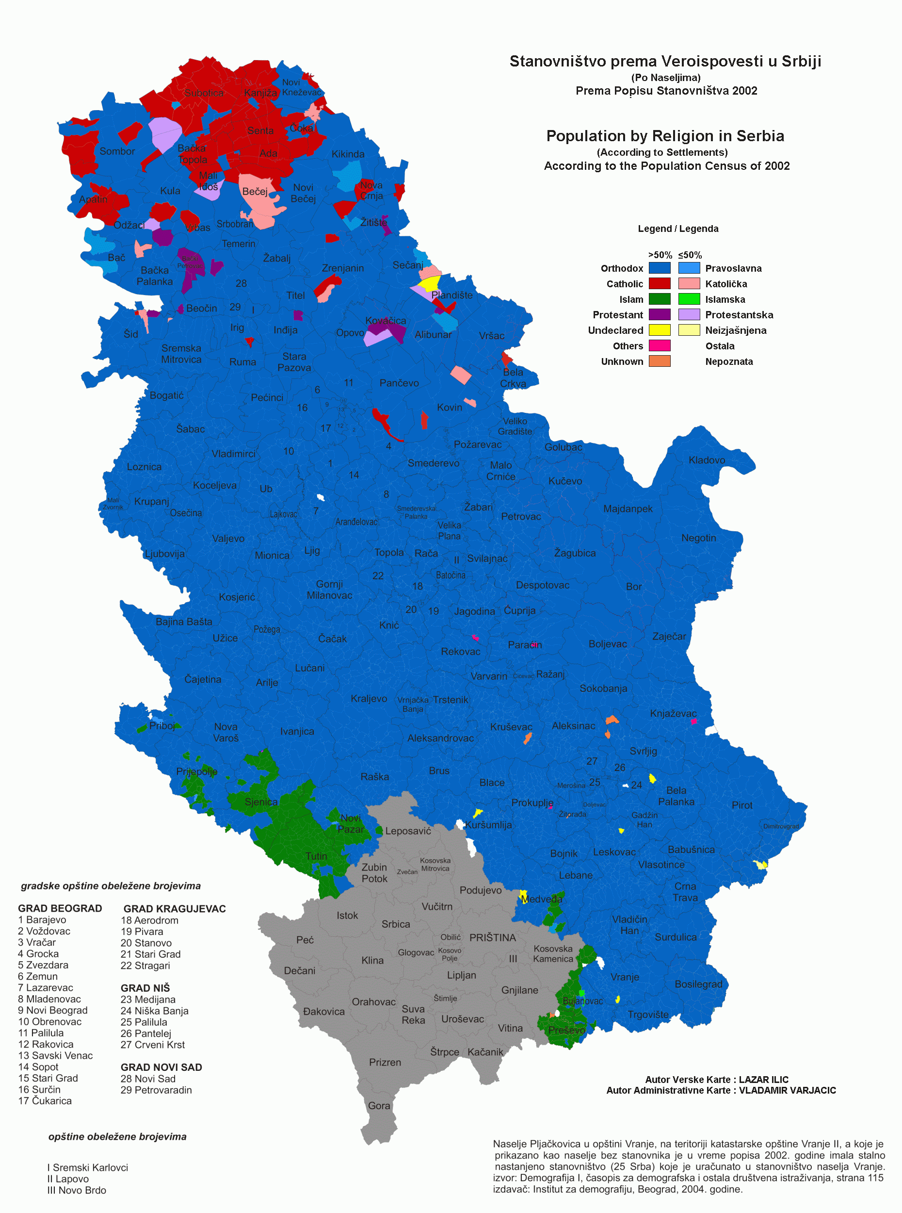 This is a religion map of Serbia. It is according to settlements, according to the 2002 census.